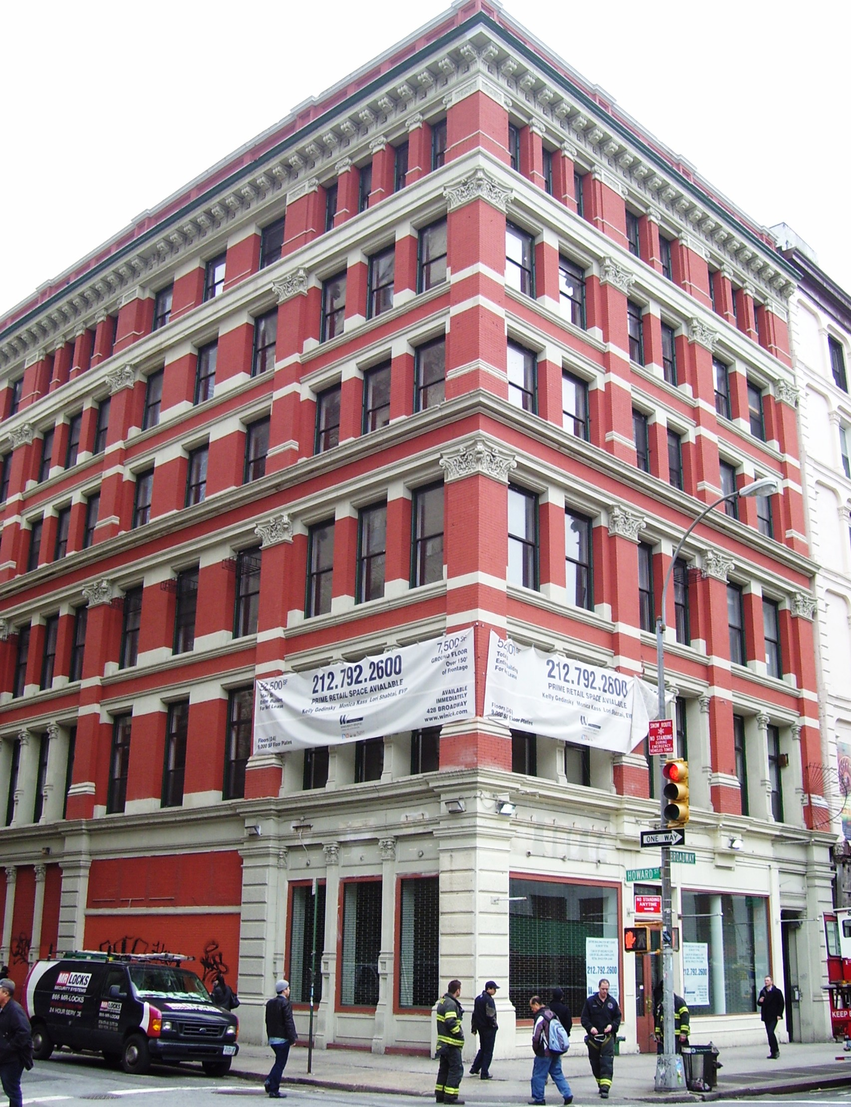 428 Broadway (428-432) on the corner of Howard Street (37-41) in the SoHo neighborhood of Manhattan, New York City, was built in 1888-89 and was designed by Samuel A. Warner in the Queen Anne style. It is located within the SoHo - Cast Iron Historic District. (Source: "NYCLPC SoHo - Cast-Iron Historic District Extension Designation Report")